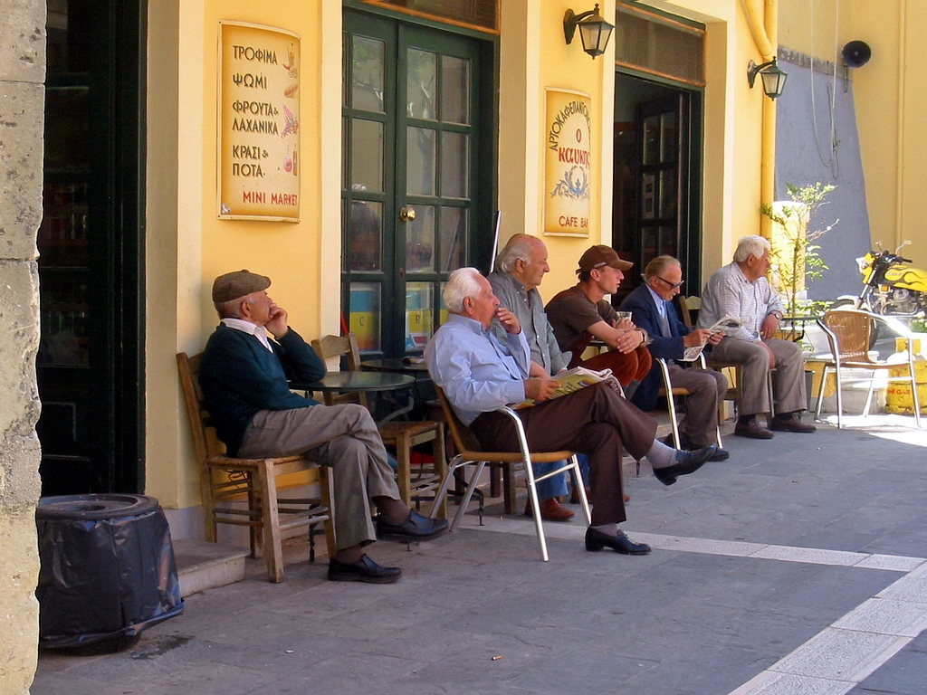 Group of men in a Kafenio, Doukades, Corfu, Greece